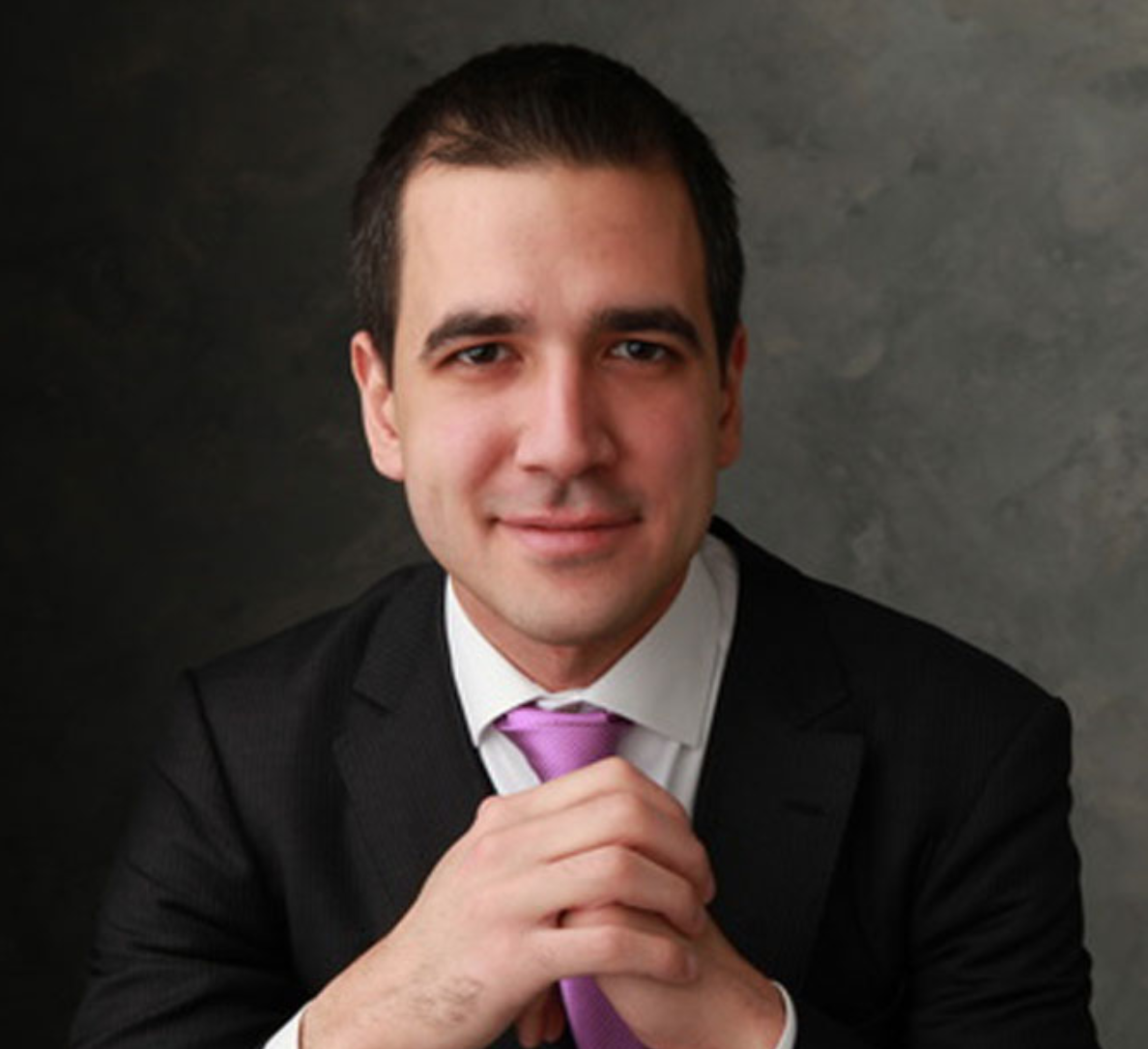 Ozan Varol in 2012.